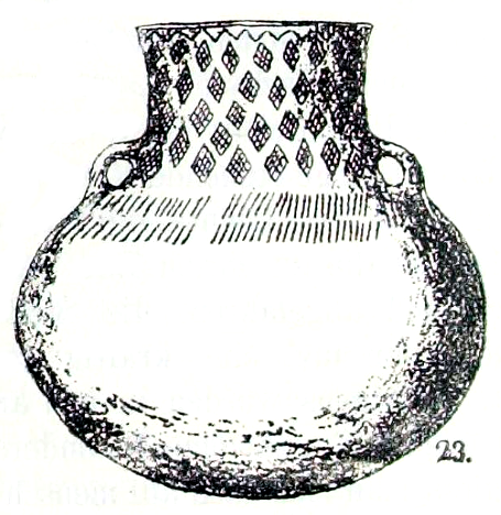 Globular amphora from the destroyed megalithic tomb at Zörbig, Saxony-Anhalt